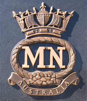 Category:Images of Canberra Badge of the Australian Merchant Navy service, as mounted on the Australian Merchant Navy Memorial. I took this picture on 2 May 2005. Peter Ellis 03:57, 7 May 2005 (UTC)